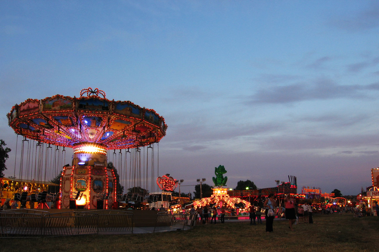 View along the north east path of Cambridge Midsummer Fair 2005 at dusk. On the left is Waveswinger Chair-O-Planes at rest, then the Jumpin Frog Jump & Smile, with the Waltzer, Terminator and High Roller in distant background.